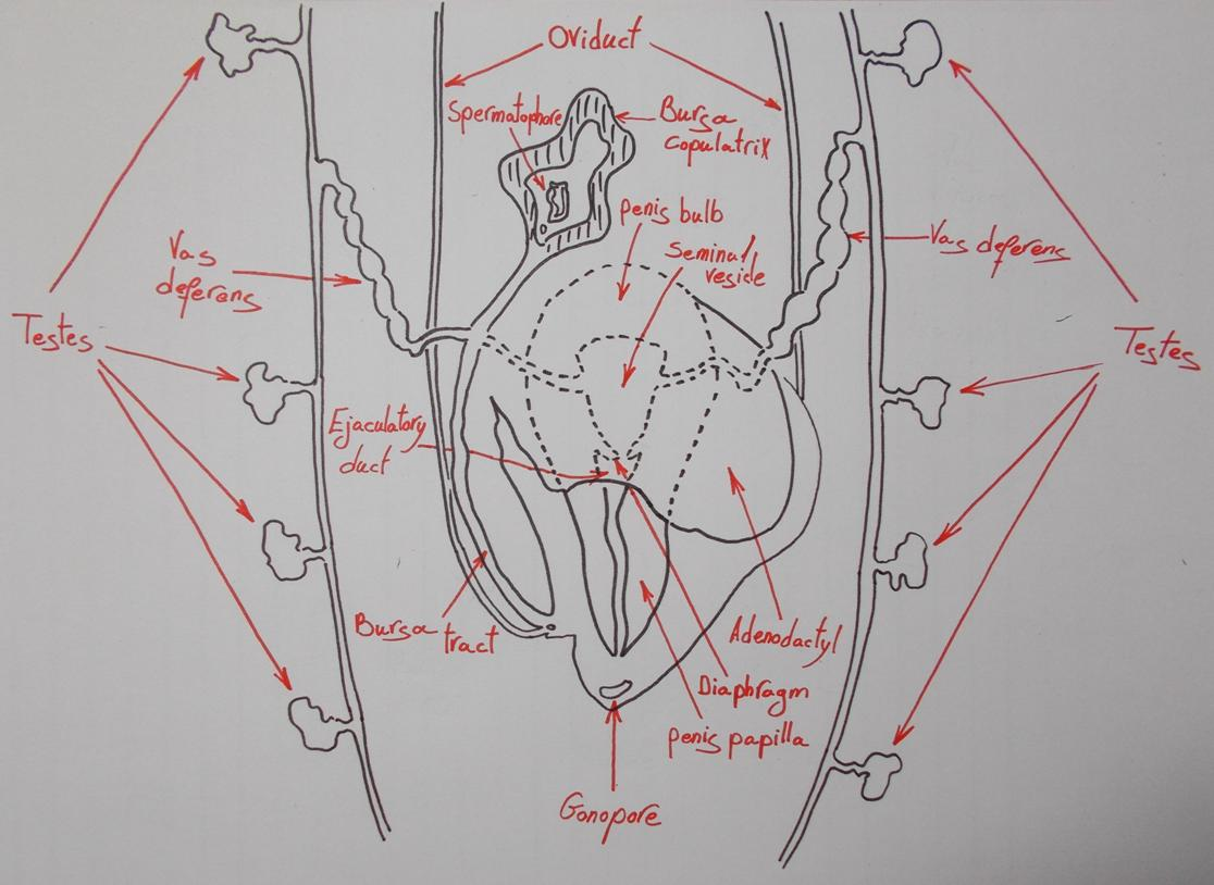 Diagrammatic reconstruction of Dugesia golanica copulatory apparatus.